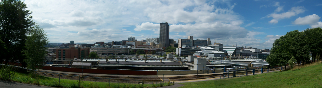 A panoramic view of Sheffield City Centre, UK. The tall tower is St Paul's Tower. At the bottom of the image is Sheffield train station.